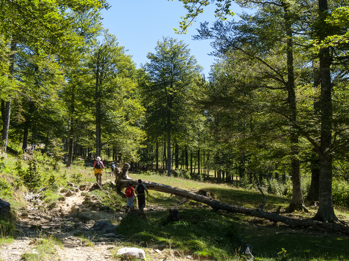 Hayedo de Gamueta This is a photography of a Site of Community Importance in Spain with the ID: ES2410003. Natura2000 entry, EEA entry